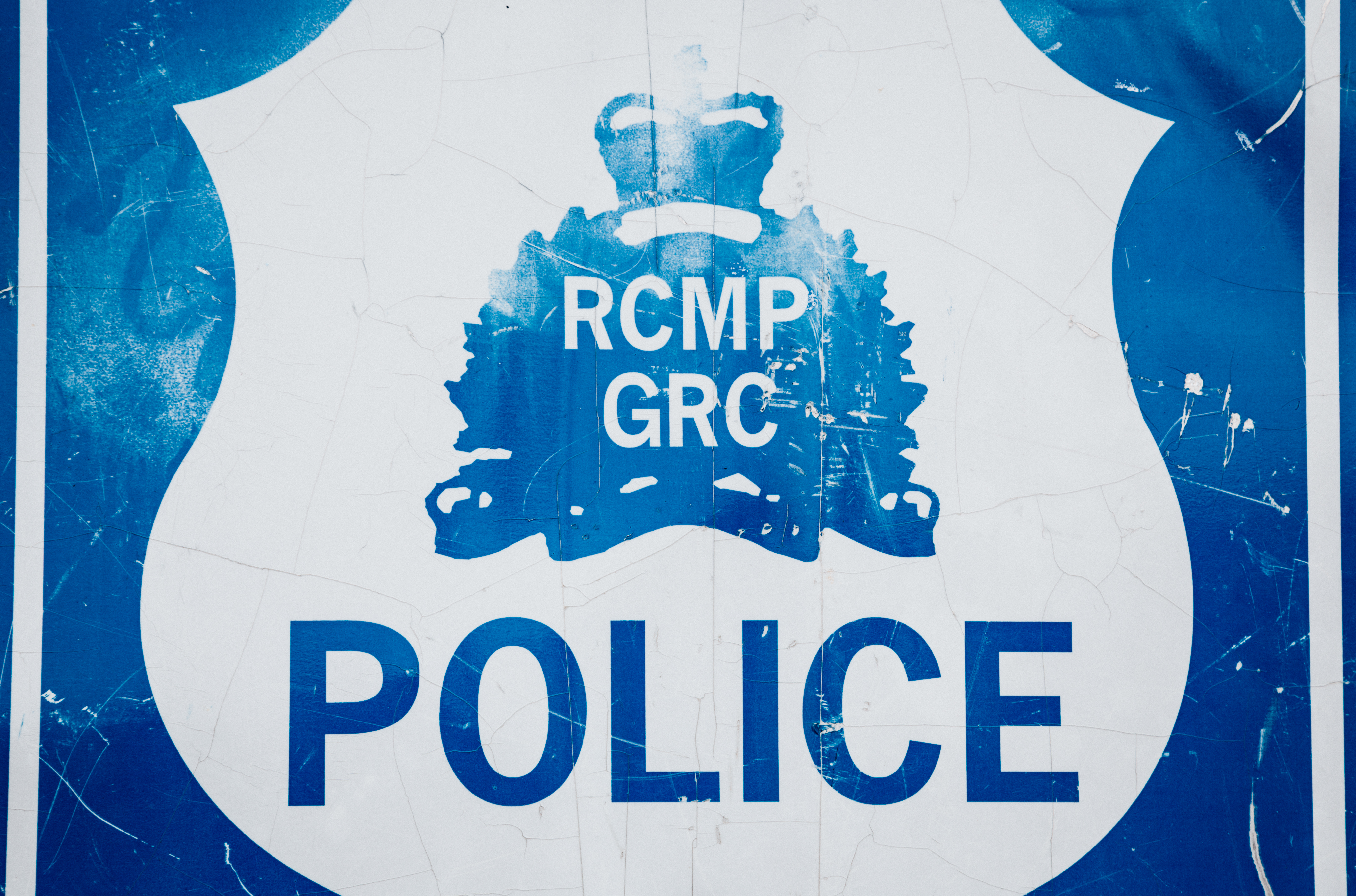 RCMP / GRC sign at Parlee Beach Provincial Park near Shediac, New Brunswick, Canada.